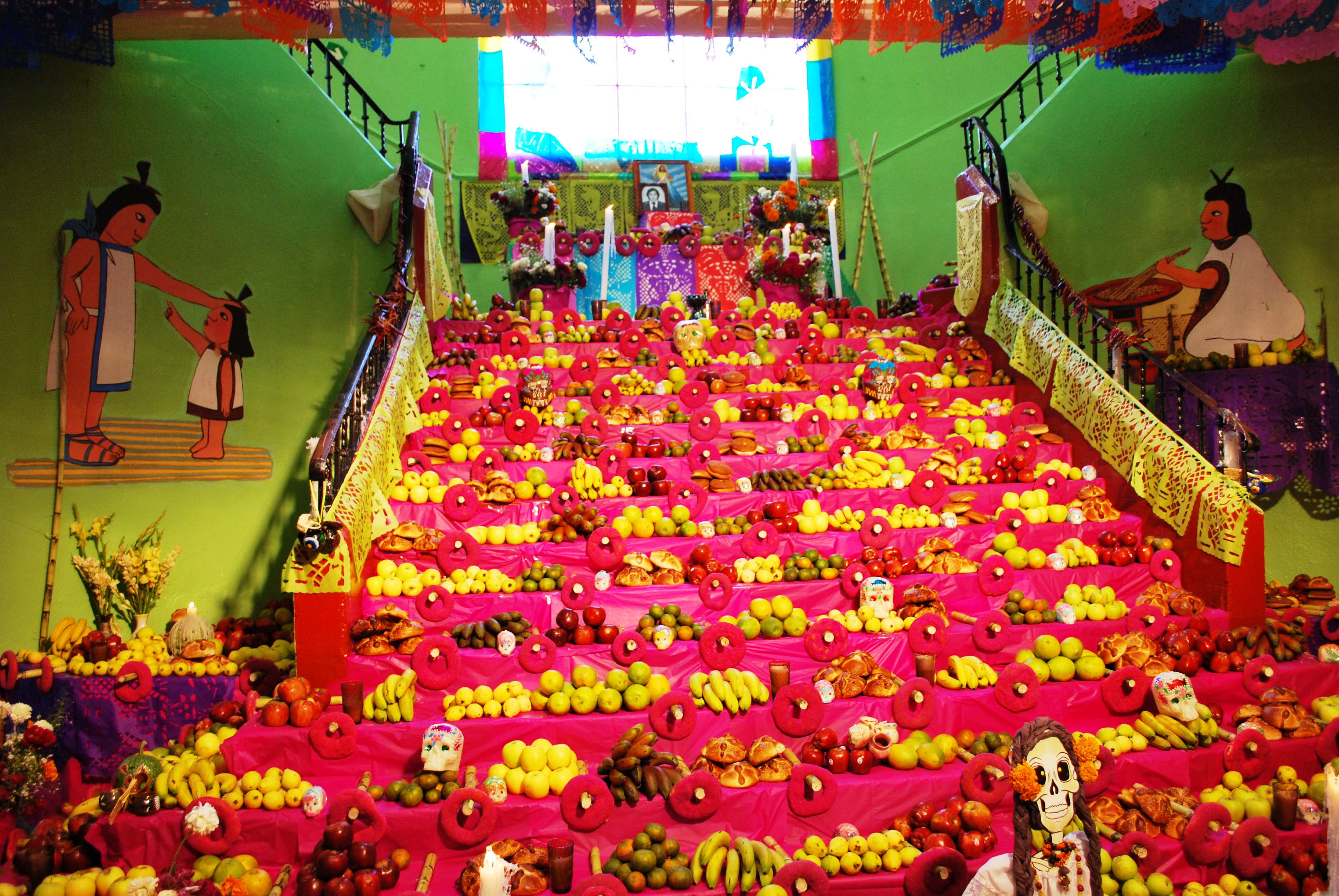 Large ofrenda (altar to the dead) arranged on the main stairwell of the Cristobal Colon Primary School in San Andres Mixquic, Mexico City for Day of the Dead